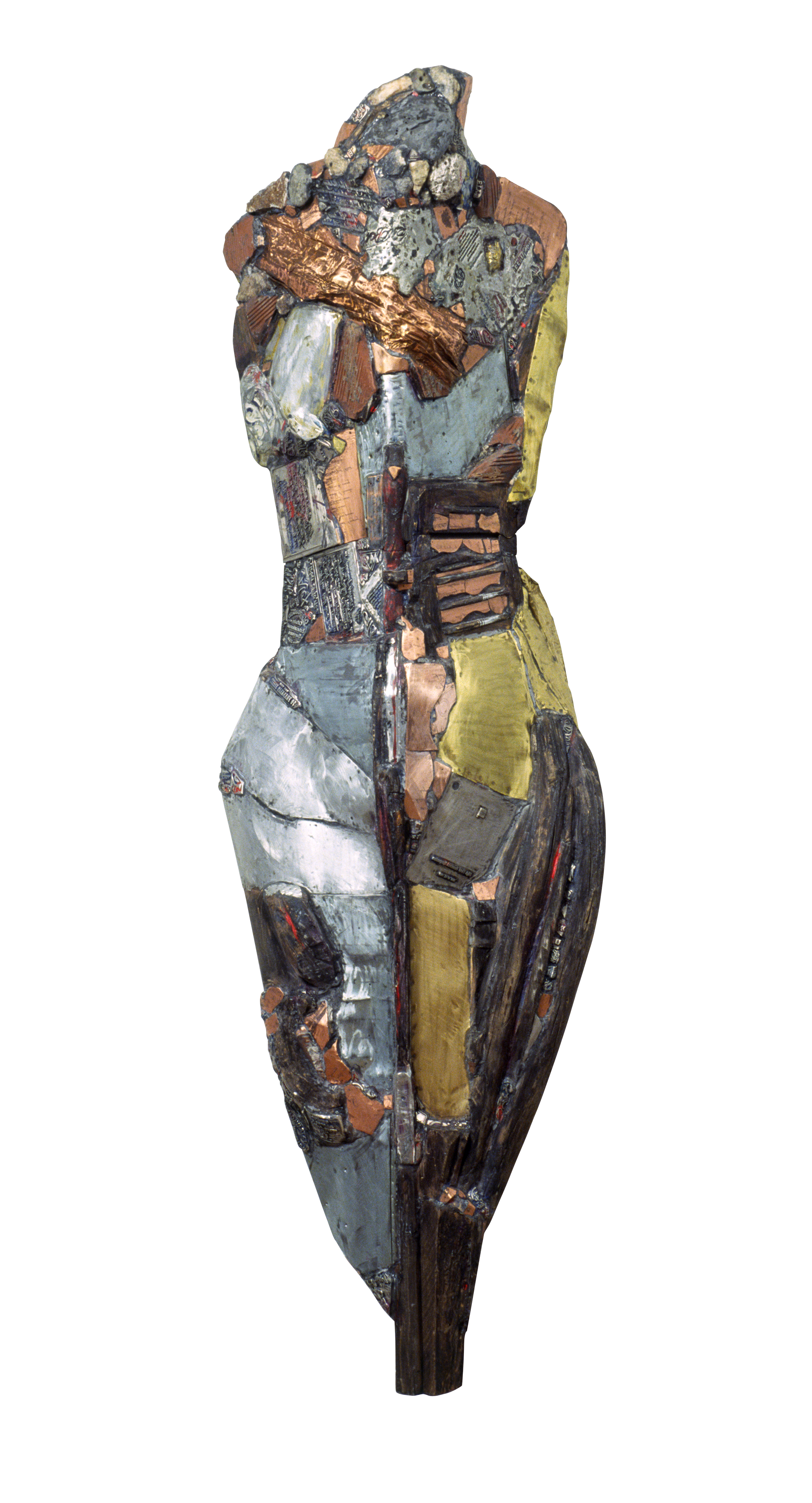 wood, metal, stone80" × 24" × 17"37 lbs. (lower) 21 lbs. (upper) = 58 lbs.